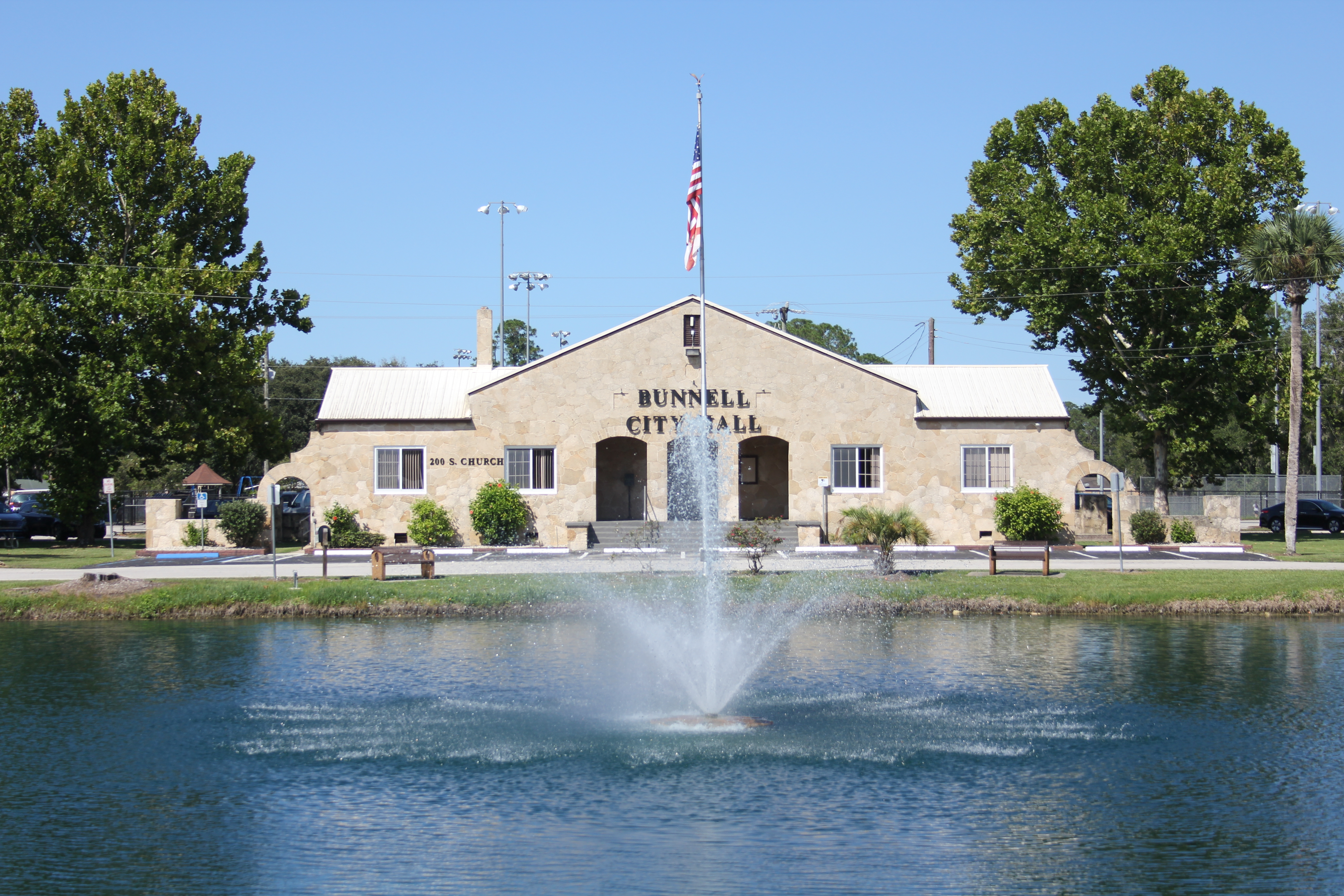 Photograph of the Bunnell Coquina City Hall - Full Front View with Lake Lucille & Fountain